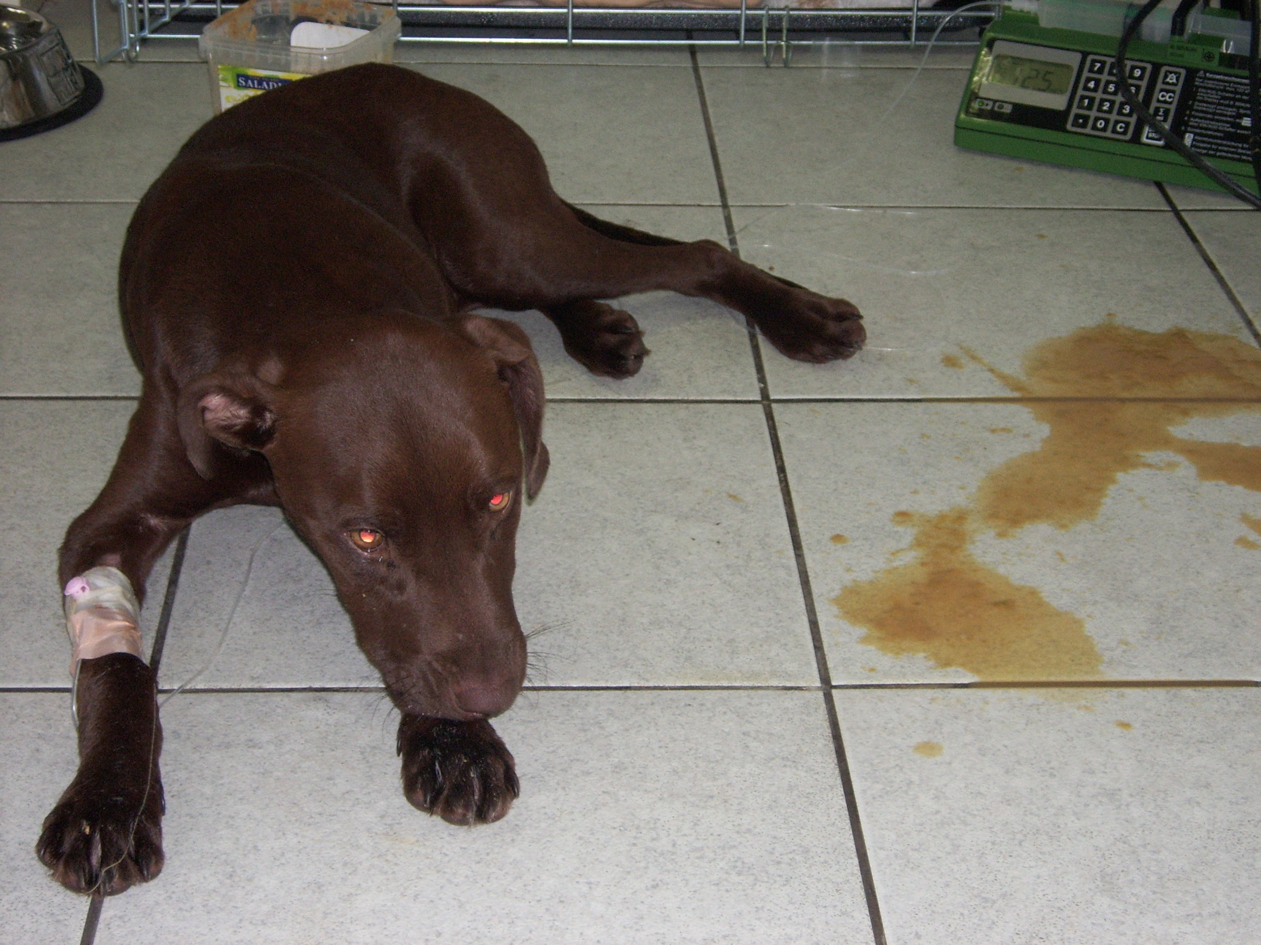 parvovirosis in a dog (age 3 month)